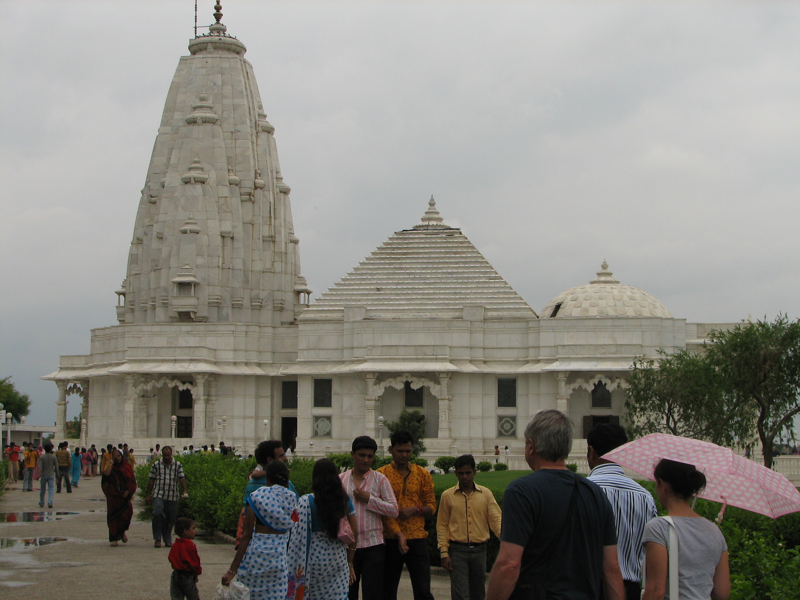 A true unbiased and open-minded temple, this Hindu temple Birla Mandir in Jaipur combines 3 clear architecture features: the traditional tiered tower of Hinduism, the pyramid stupa of Buddhism and the dome of Islam. The marble sides were carved in figures representing not on the many Deities of Hinduism, but also Christian Saints and Jesus himself. Truly a place for all. We unfortunately did not get long to view inside as it was nearly closing time and the security were feverently shoeing people out! This incorporation of different styles, if not full-blown religious segmentation as it appears here was a common scene in Rajasthan where centuries of influences from the Greeks to Muslims, Jains and Buddhists, Christians and tribals has fused. Tour guides often pointed out greek-taught column work with traditional Hindu carved figures (elephants often) at the tops holding muslim-taught domes and archways. And of course why not. If it works, is strong, asctetic and powerful, grab it. I particularly noted and took to theses lessons in the palaces, temples and forts we saw as it is good to remember that North America was not the original or only "melting pot" out there and cultures have been merging and bubbling for millennia. Too easy to remember only the British Victorian era of cultural segregation and the US's racial history as the way cultures always met and interacted, but that is not always the case. But I go off track...it was a pretty temple, in marble. I guess I should have left it at that! ;-)